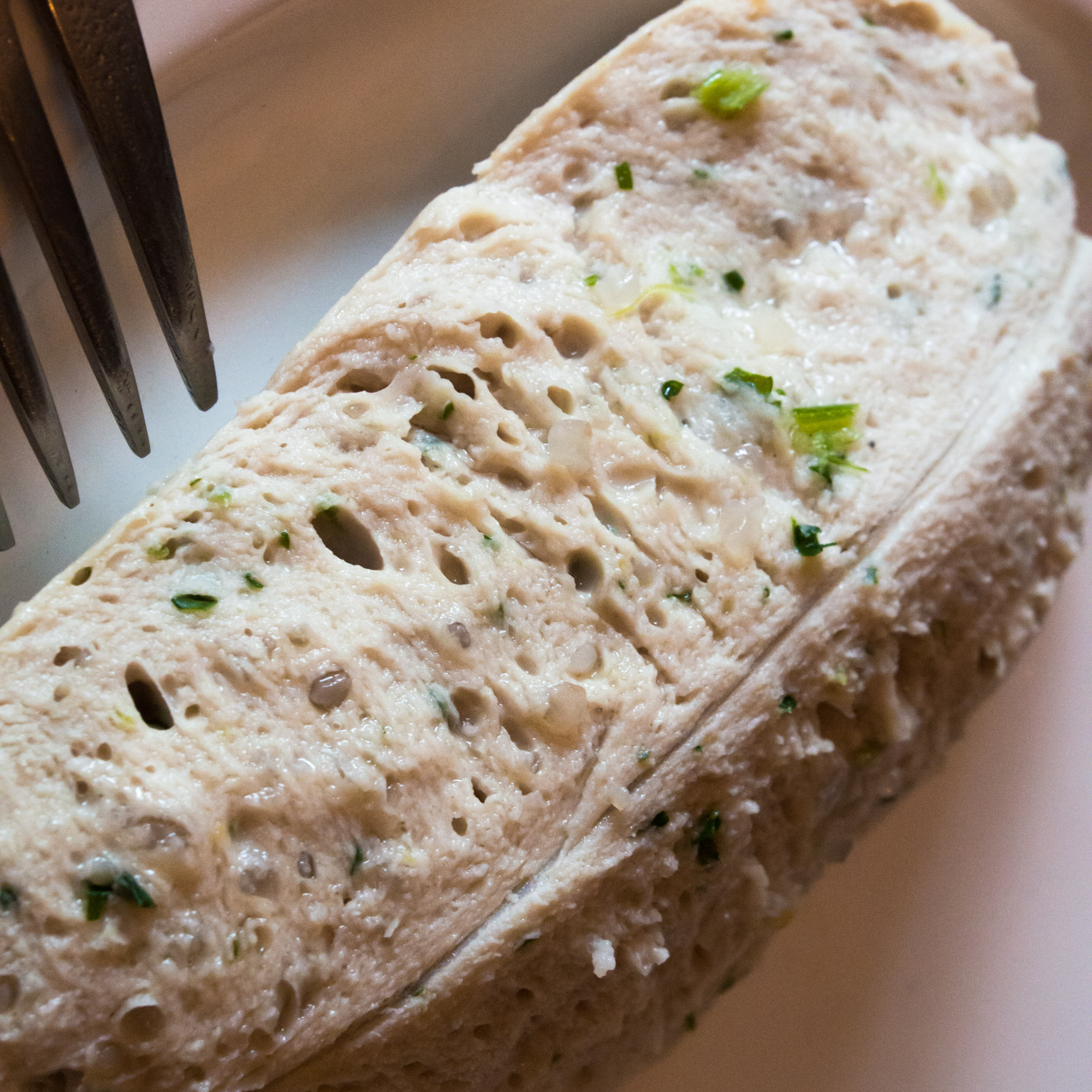 A close-up of a Bavarian "Weisswurst" that has been cut open lengthwise. A Canon 250D macro lens was used together with the Panasonic 45-150mm to make this close-up.